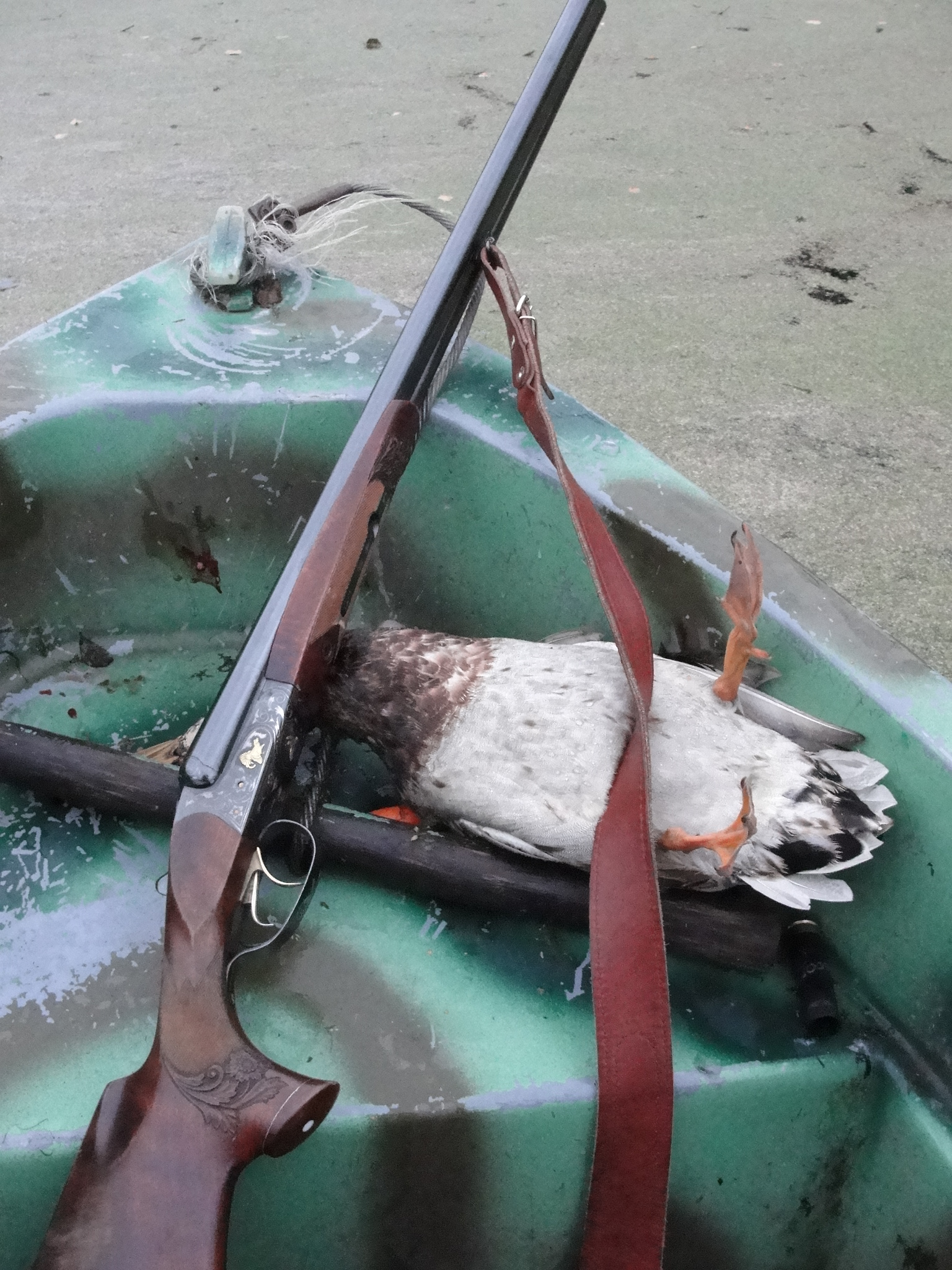 A drake shot in Yaroslavl Region of Russia